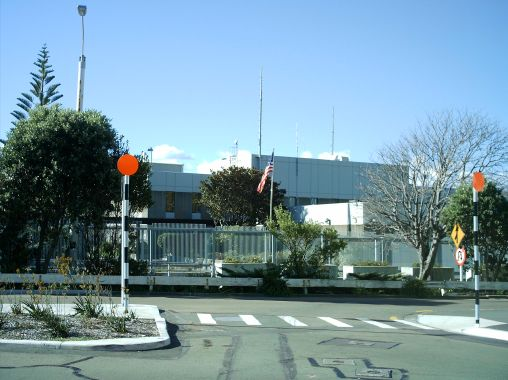 Photo of the US diplomatic mission in Wellington, New Zealand